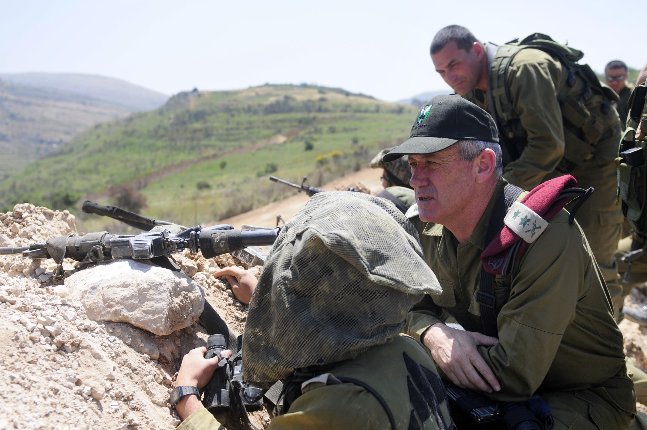 June 6, 2011. IDF Chief of the General Staff, Lt. Gen. Benny Gantz, visited the 36th Armored Division, which is subordinate to the Northern Command. "We must remain alert and prepared," said Lt. Gen. Gantz. "The IDF is prepared to use all the defensive means at its disposal to prevent terrorist attacks and large scale attempts to breach the border." Lt. Gen. Gantz met with GOC Northern Command, Maj. Gen. Gadi Eisenkot, Commander of the 36th Armored Division, Brig. Gen. Eyal Zamir and soldiers stationed at the northern security fence. He received a situation assessment and debriefing on the previous day's events including conclusions reached at all levels of the IDF's command structure 06.06.2011 הרמטכ"ל, רב-אלוף בני גנץ ביקר היום (ב') בעוצבת געש שבפיקוד הצפון, נפגש עם החיילים המוצבים בקו ההגנה של גדר המערכת וכן עם מפקד פיקוד הצפון, אלוף גדי אייזנקוט ומפקד עוצבת געש, תת-אלוף אייל זמיר, אשר סקרו בפניו את אירועי היממה האחרונה.